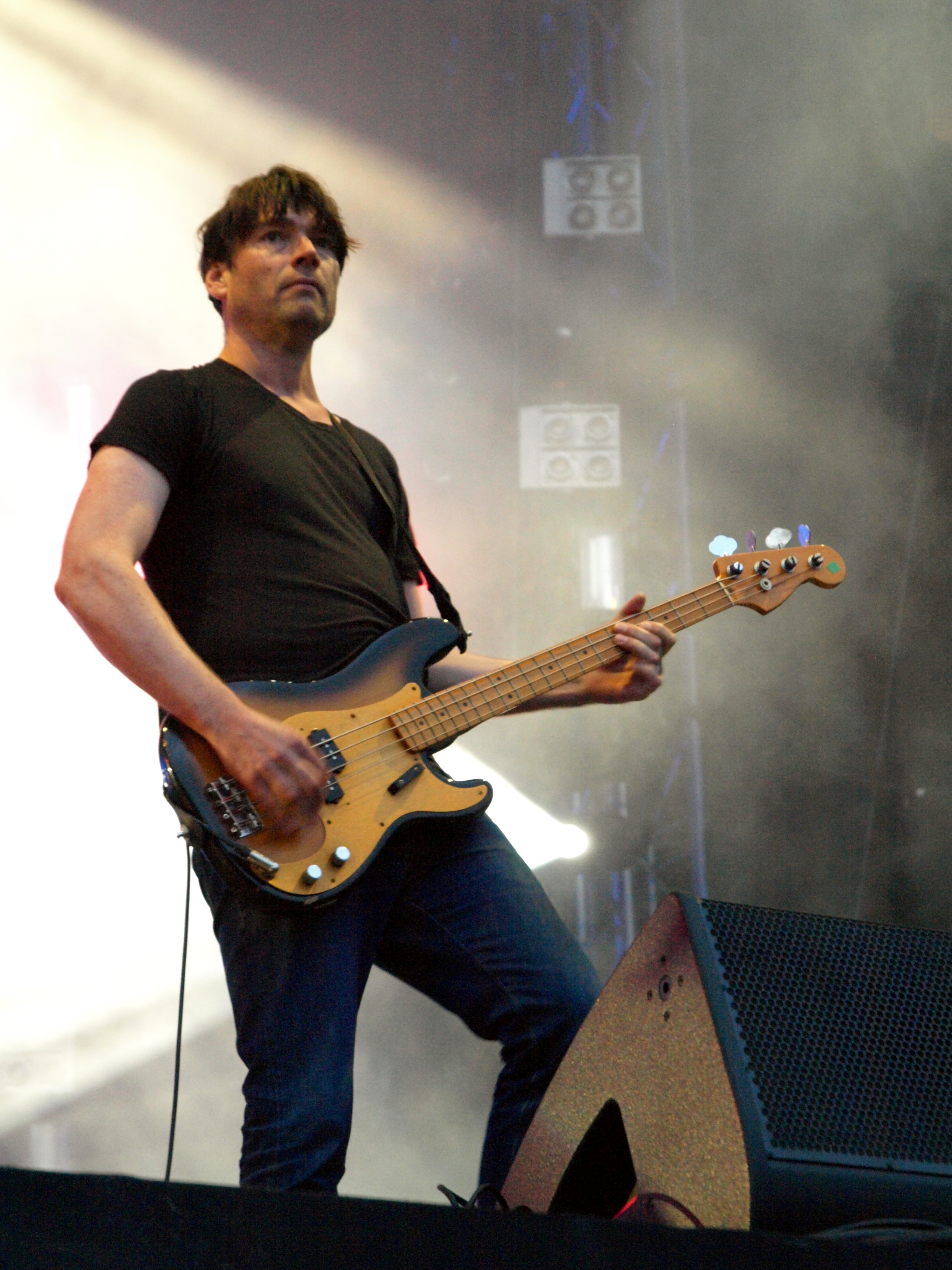 British band Blur live at Provinssirock 2013